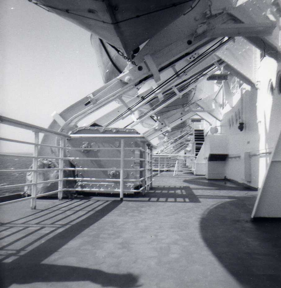 SS United States sun deck during eastbound transatlantic voyage